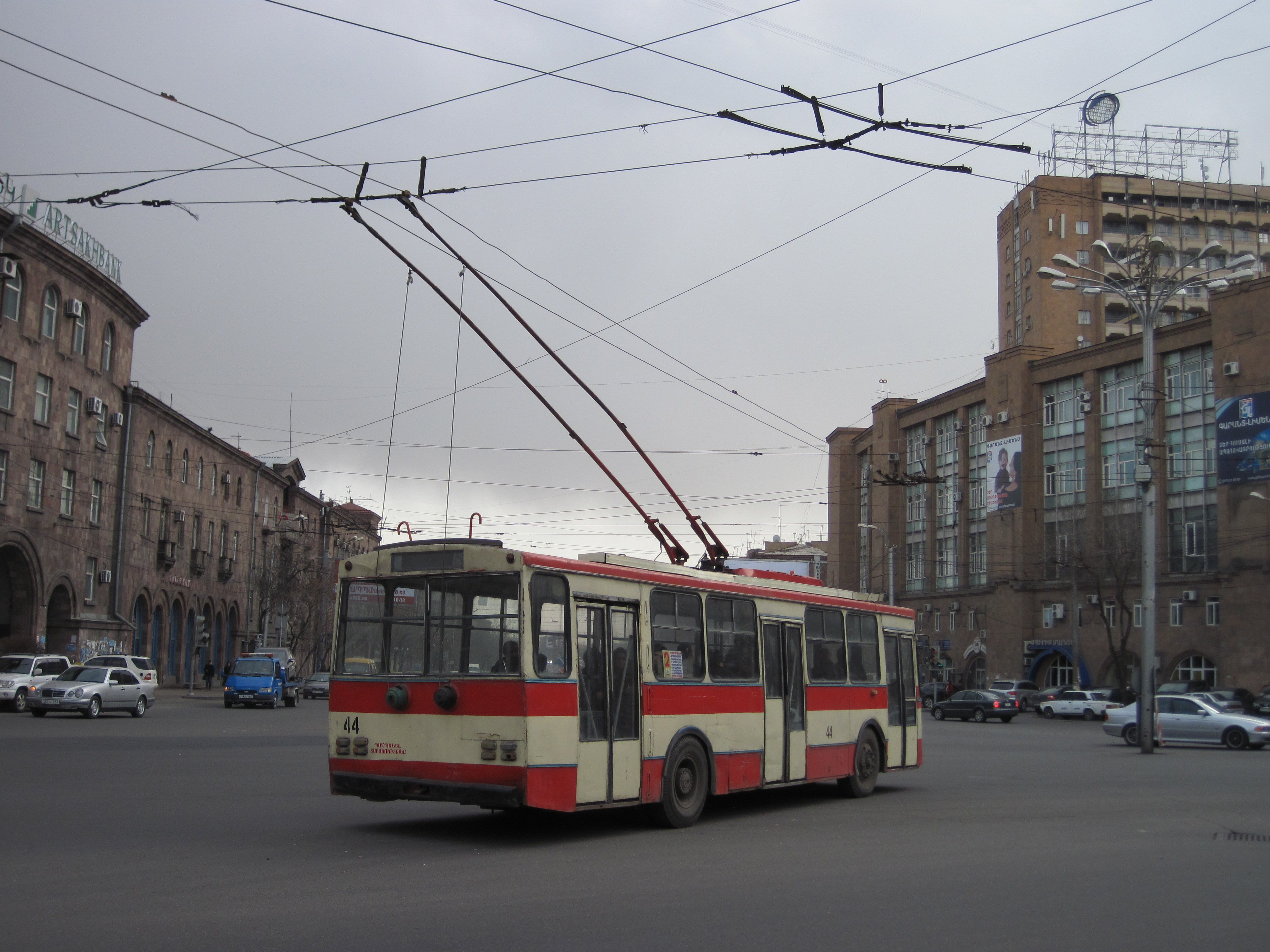 Yerevan trolleybus.